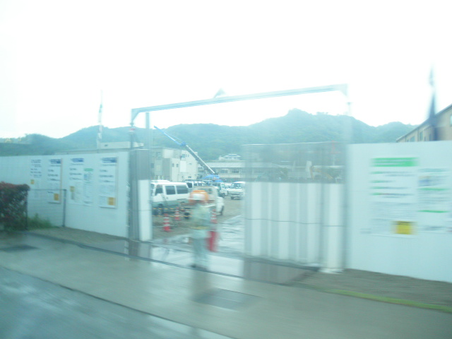 Minato High School